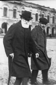 Photo of Ivan Pavlov and Georgiy Folbort. Around 1920.